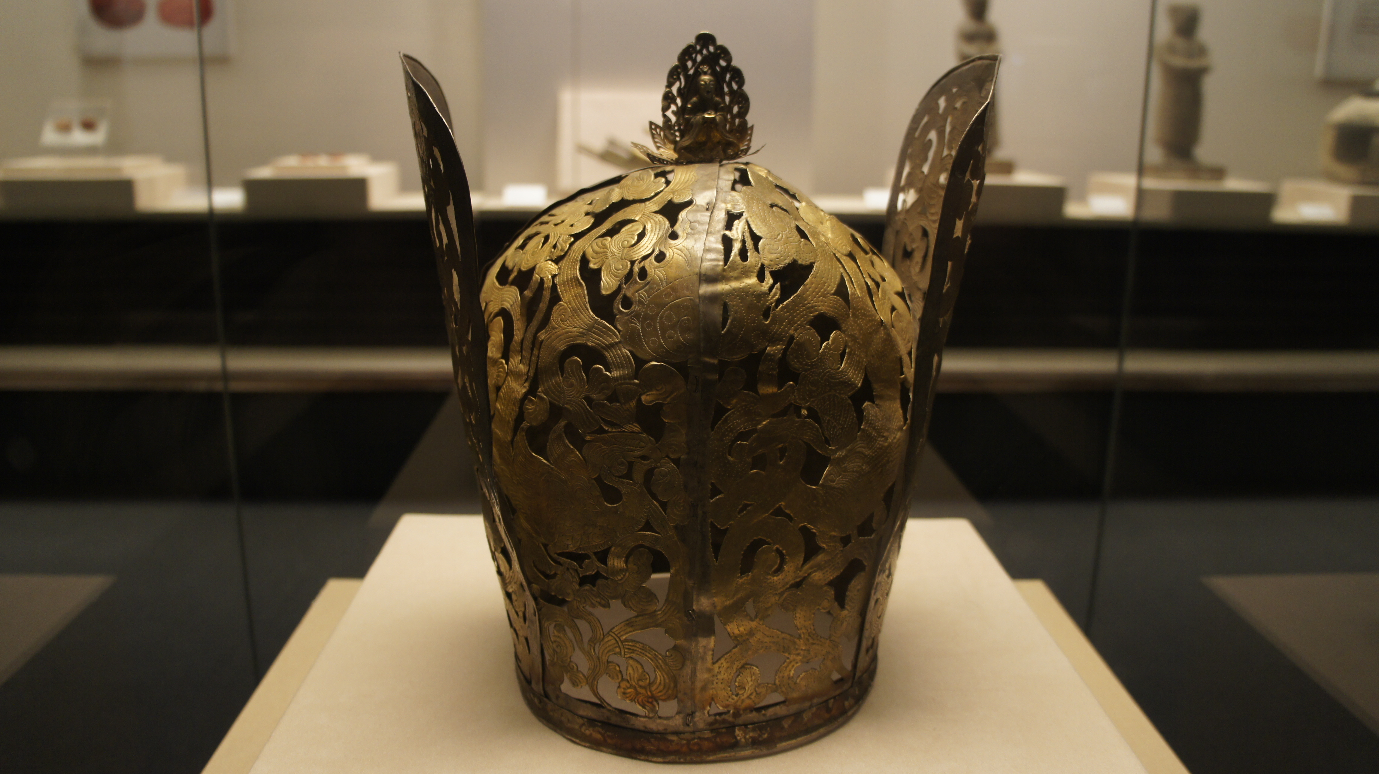 Headwear (with Taoist deity Yuanshi Tianzun as decoration on the top) worn by woman of Khitan nobility of Liao dynasty (907 - 1125 AD), excavated from the tomb of Princess of Chen (陈国公主, granddaughter of Khitan Emperor Jingzong of Liao r. 948 - 982 AD) at Naiman Banner, Inner Mongolia, who died at the age of 18.